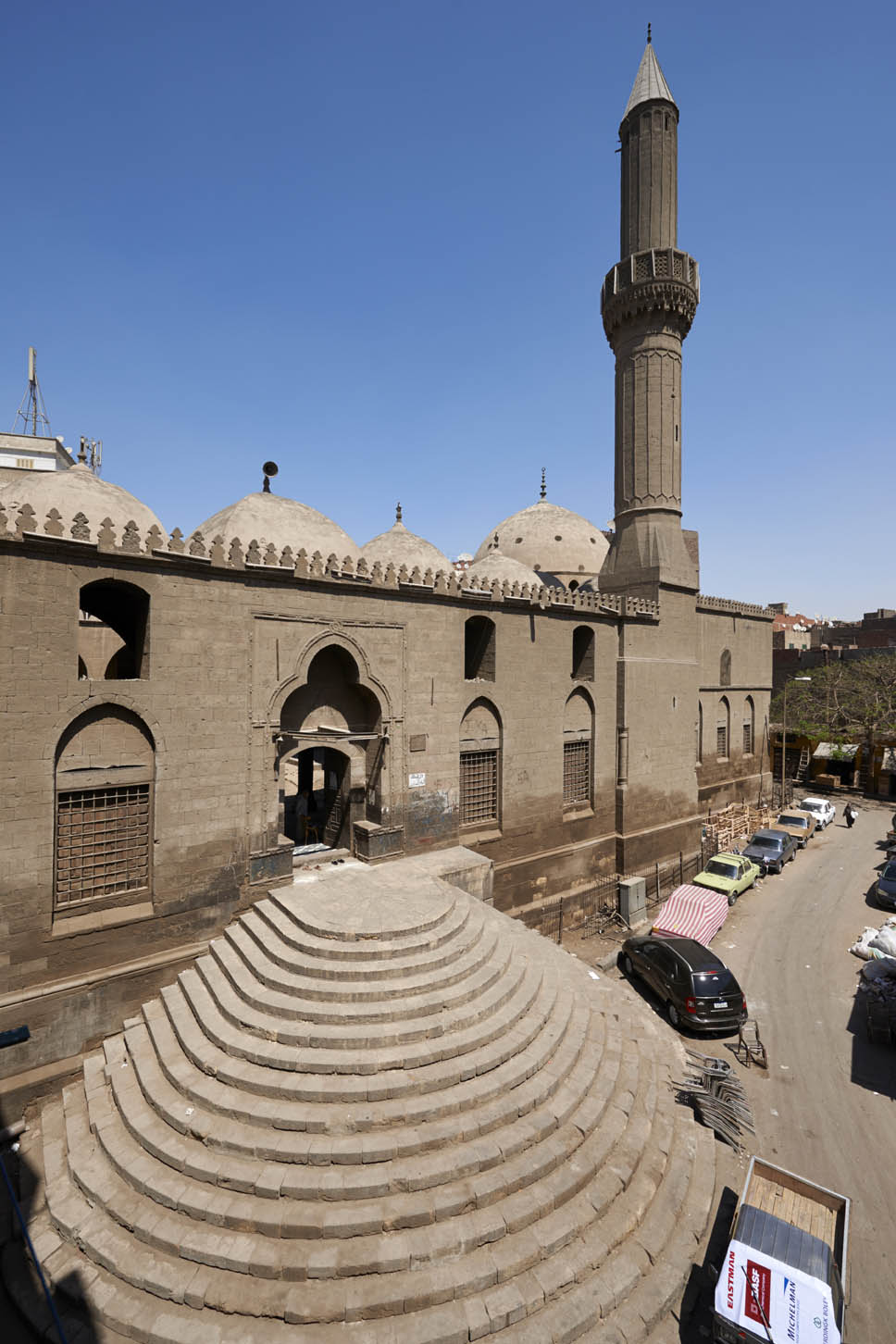 Oblique view of southwest facade, with semicircular entrance stairs, and minaret